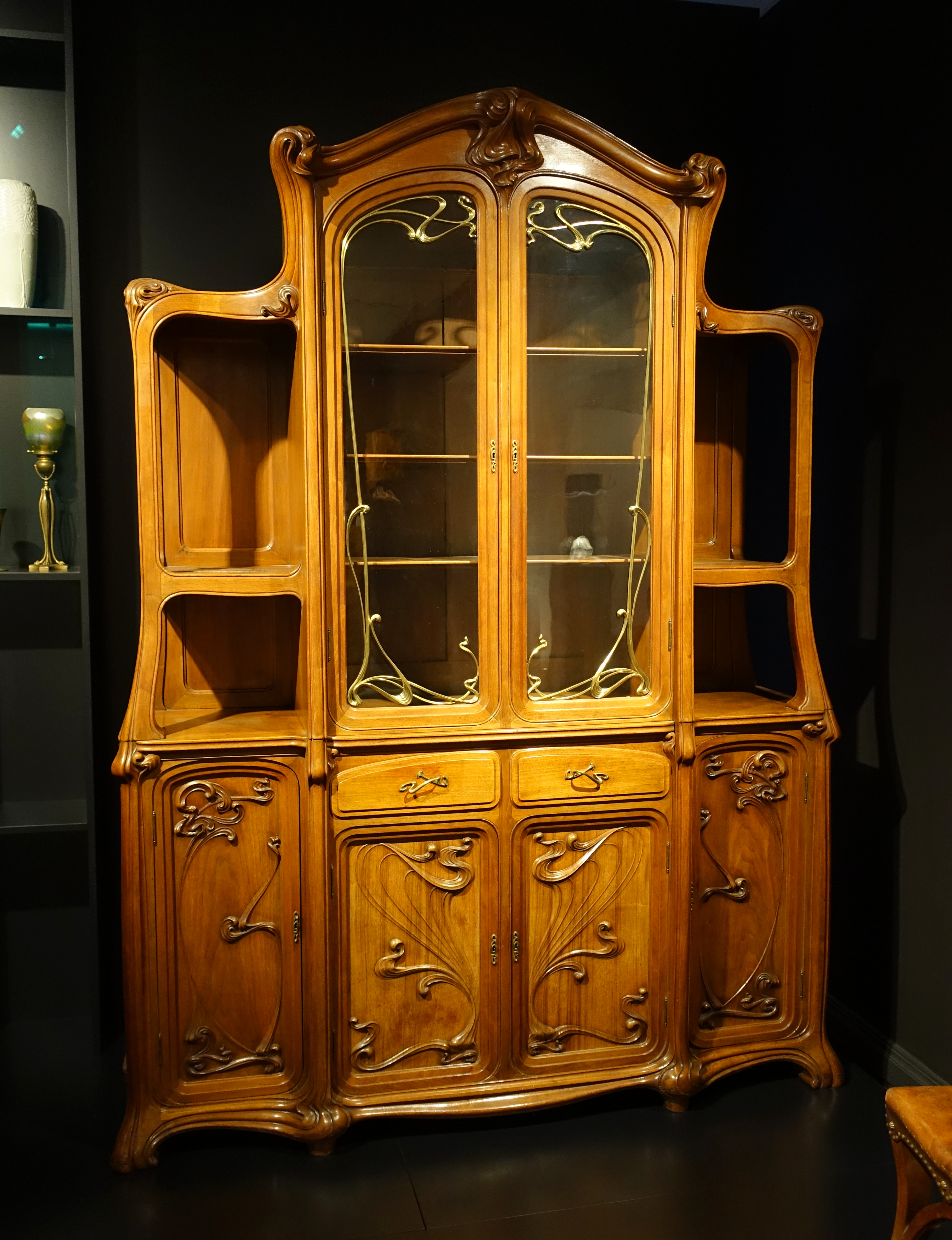 Exhibit in the Bröhan Museum, Berlin, Germany. This work is in the public domain because the artist died more than 70 years ago.